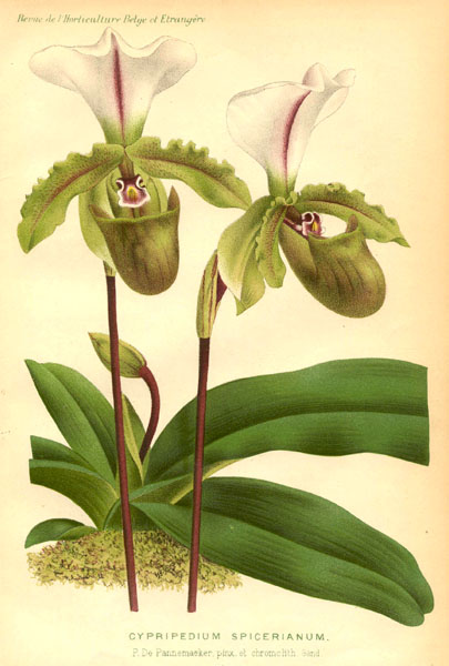 Paphiopedilum spicerianum